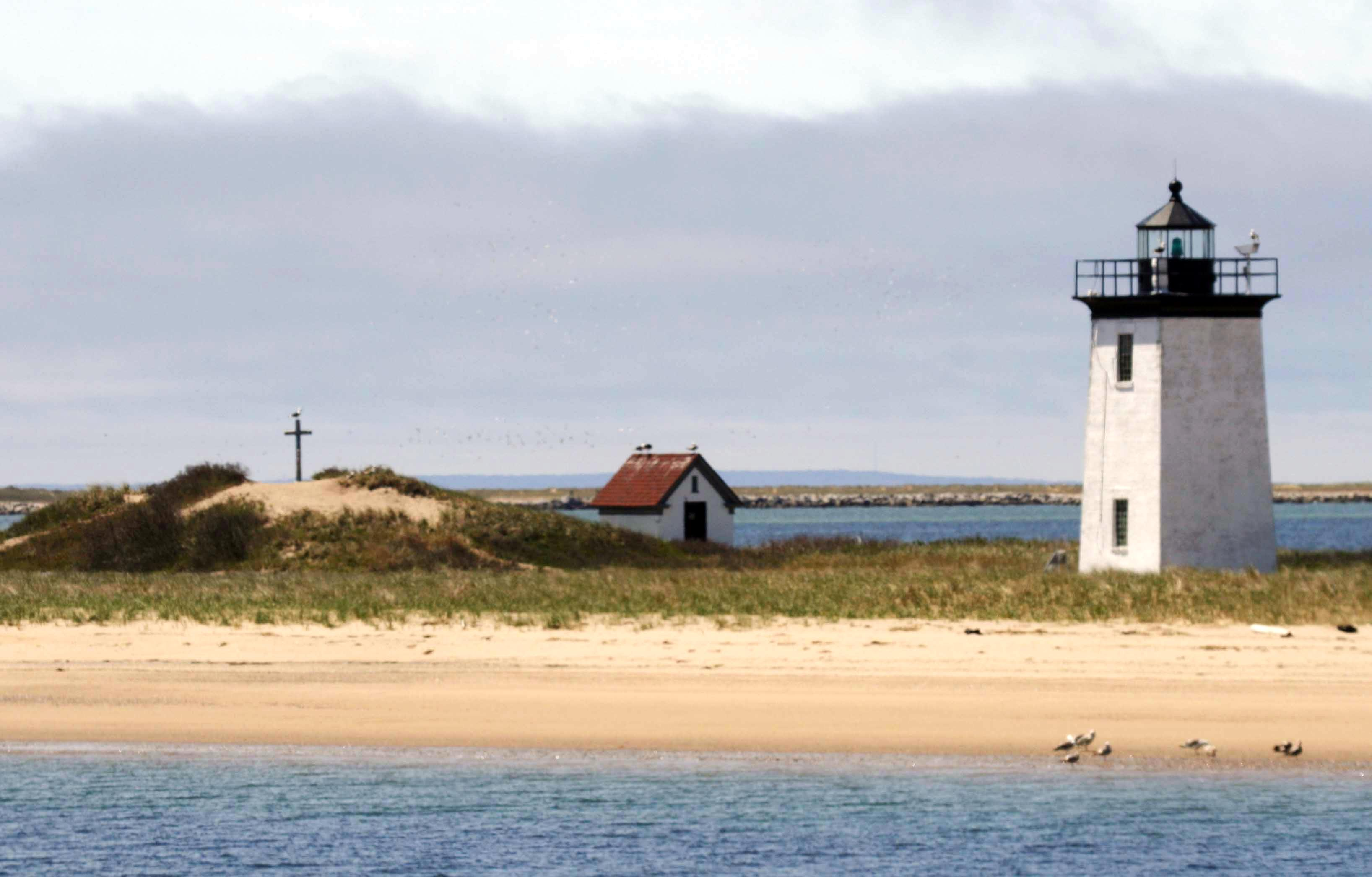 Long Point Lighthouse, Provincetown, MA, built in 1875. Next to that is an shed built in 1904 to store flammables such as oil for the lighthouse's lamp. The mound next to that is all that remains of a Civil War artillery battery that was built in 1863, and abandoned in 1872. There were two such batteries on Long Point, this one was called the "outer battery".